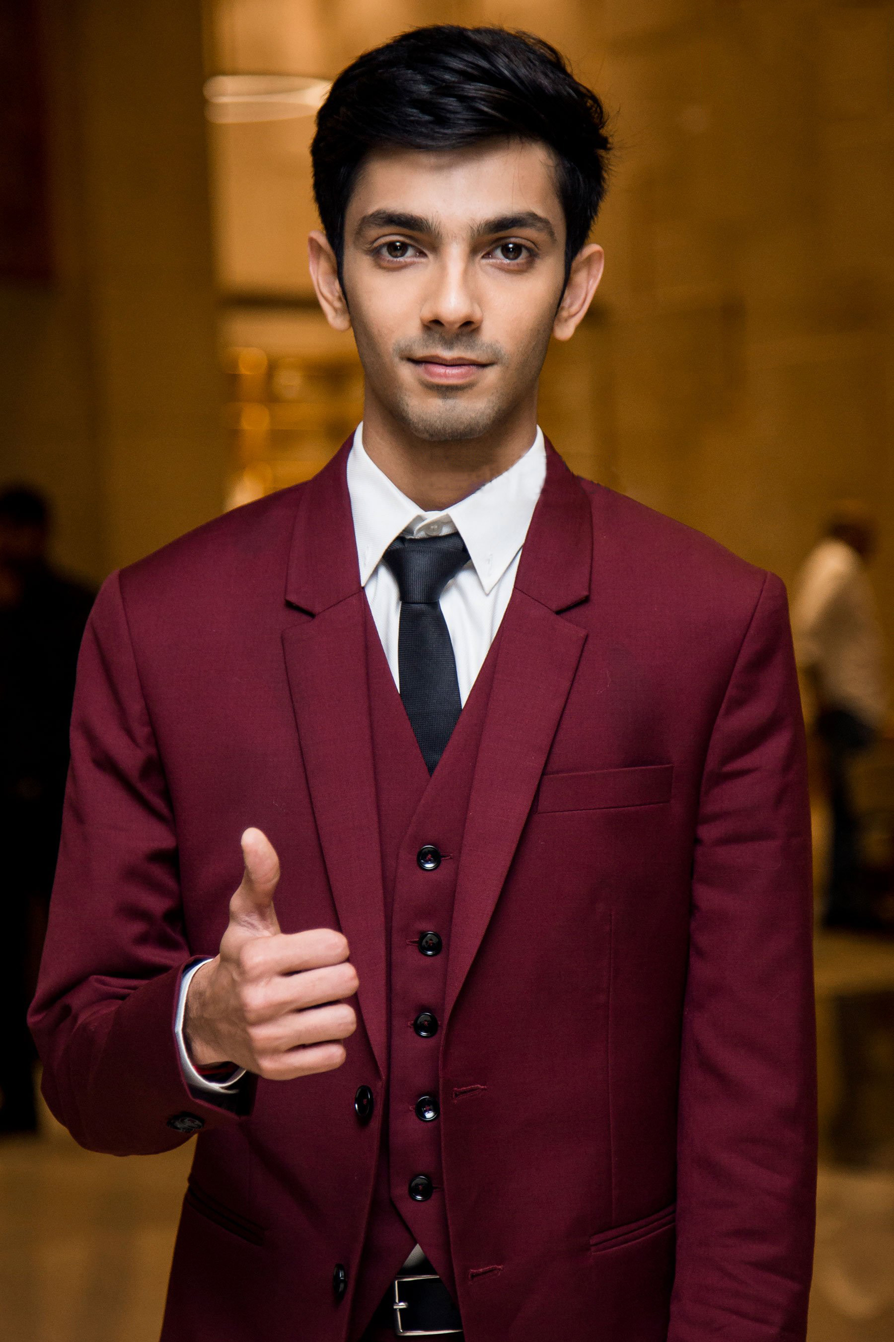 Anirudh Ravichander at Audi Ritz Style Awards 2017